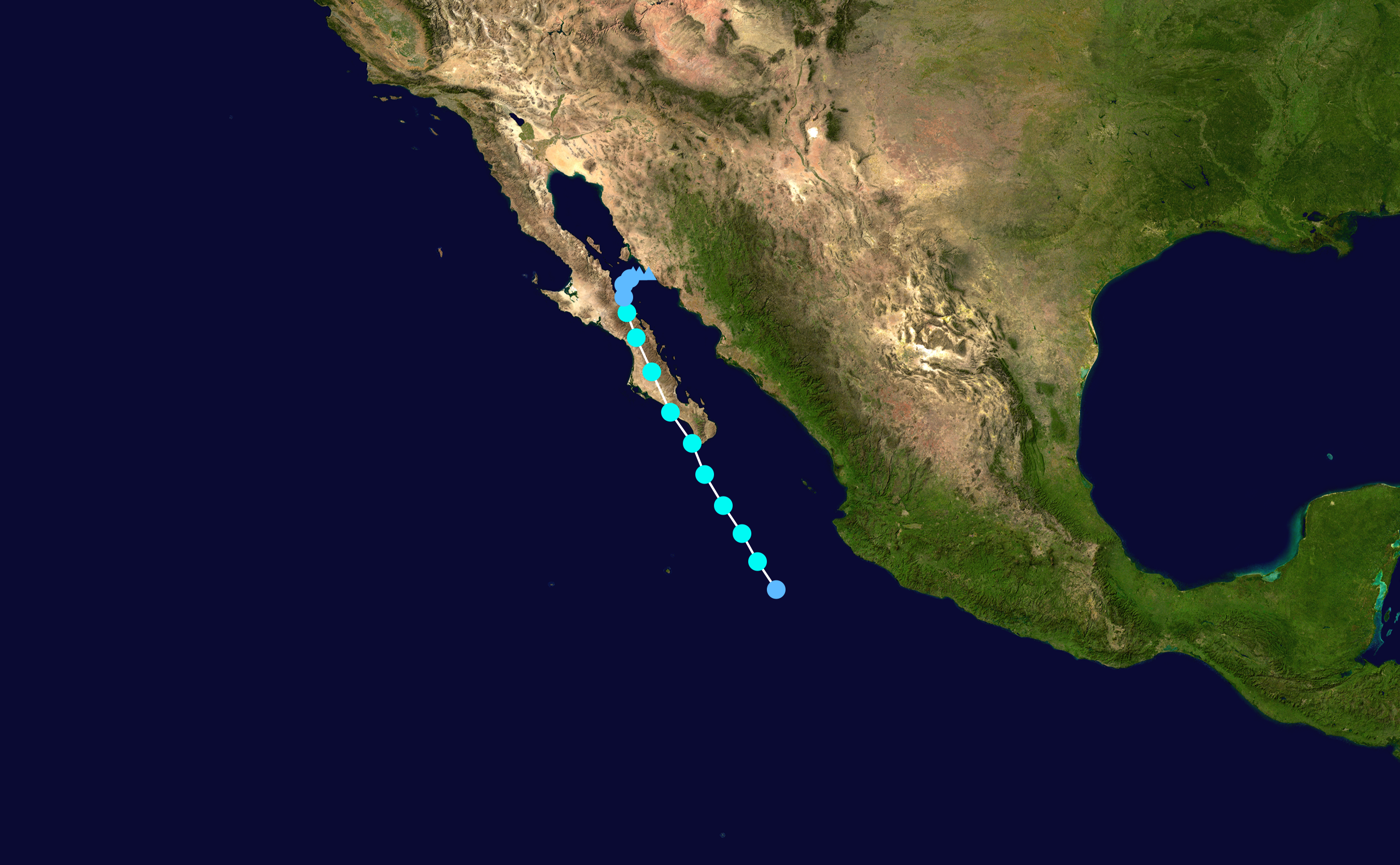 Track map of Tropical Storm Julio of the 2008 Pacific hurricane season. The points show the location of the storm at 6-hour intervals. The colour represents the storm's maximum sustained wind speeds as classified in the Saffir–Simpson scale (see below), and the shape of the data points represent the nature of the storm, according to the legend below. Saffir–Simpson scale Tropical depression≤38 mph≤62 km/h Category 3111–129 mph178–208 km/h Tropical storm39–73 mph63–118 km/h Category 4130–156 mph209–251 km/h Category 174–95 mph119–153 km/h Category 5≥157 mph≥252 km/h Category 296–110 mph154–177 km/h Unknown Storm type Tropical cyclone Subtropical cyclone Extratropical cyclone / Remnant low / Tropical disturbance / Monsoon depression